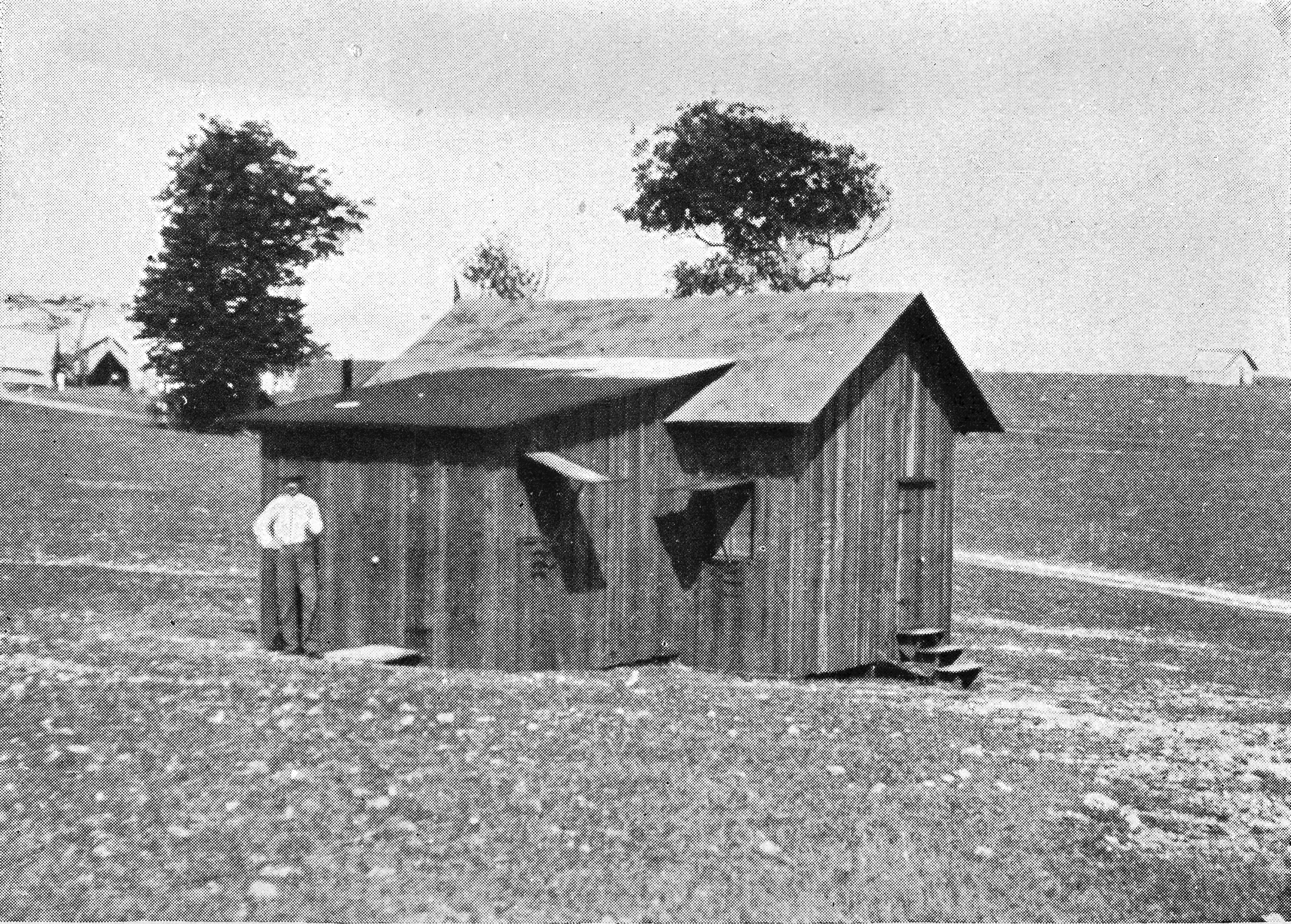 Camp Lazear. Building where the experiments were made that proved that yellow fever is not transmitted by means of infected clothing (fomites) General Collections Keywords: tropical diseases; Physicians; Yellow Fever